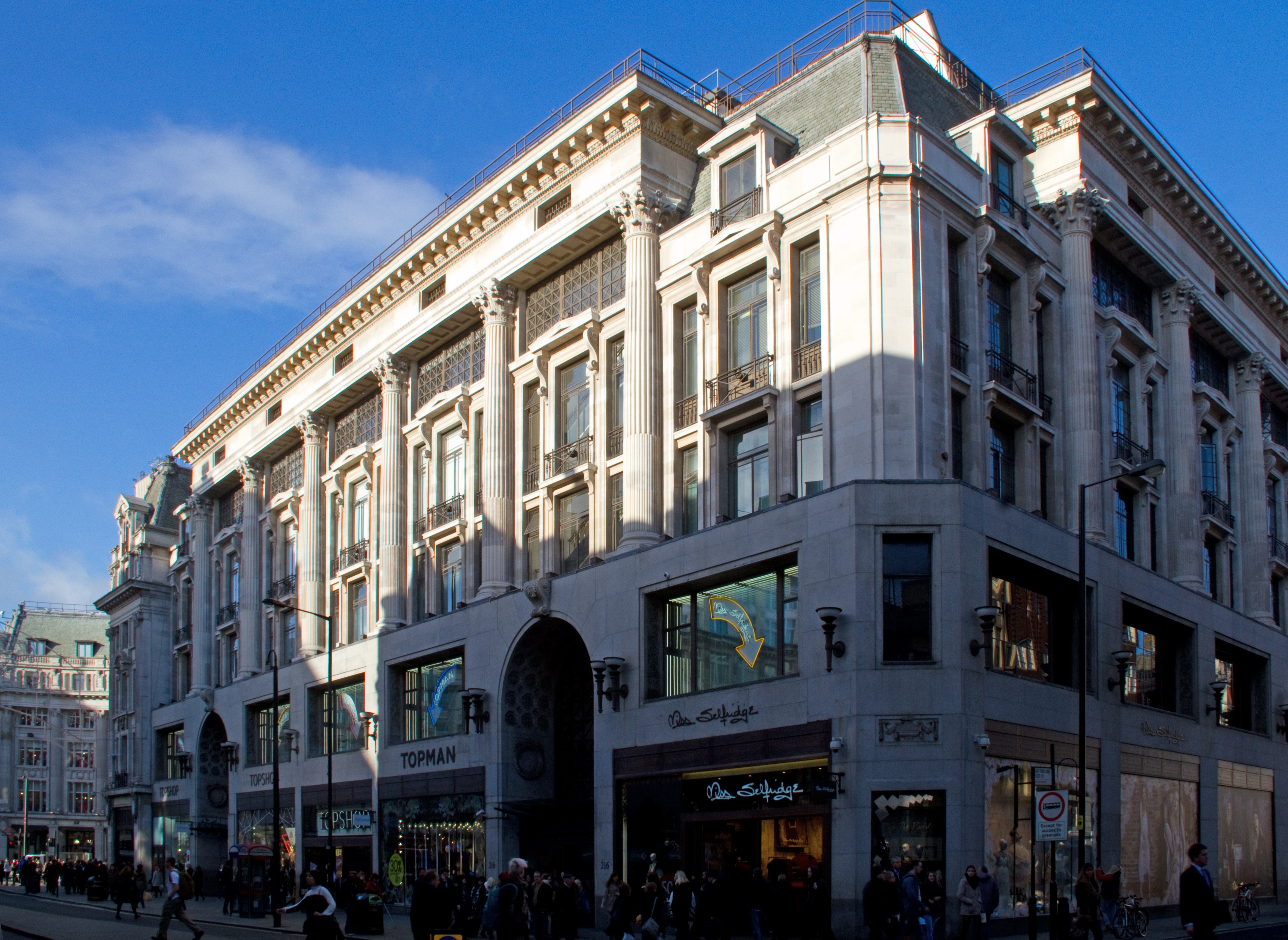 Topshop